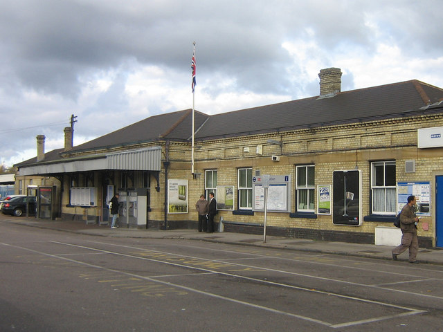 Orpington Station - western entrance